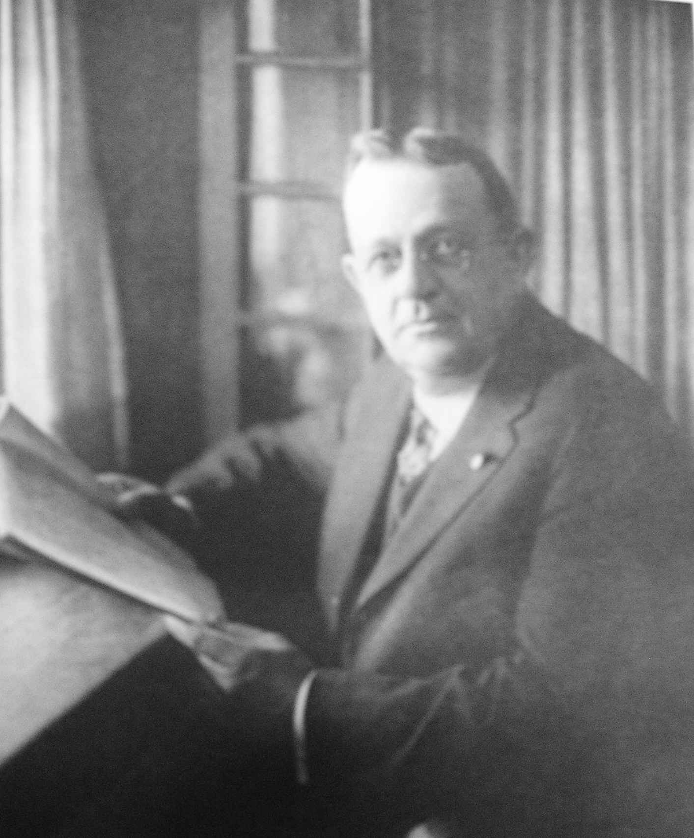 Photo of editor and author Henry M. Tichenor probably taken sometime 1914-1919 and published in the National Cyclopedia of American Biography in 1926.